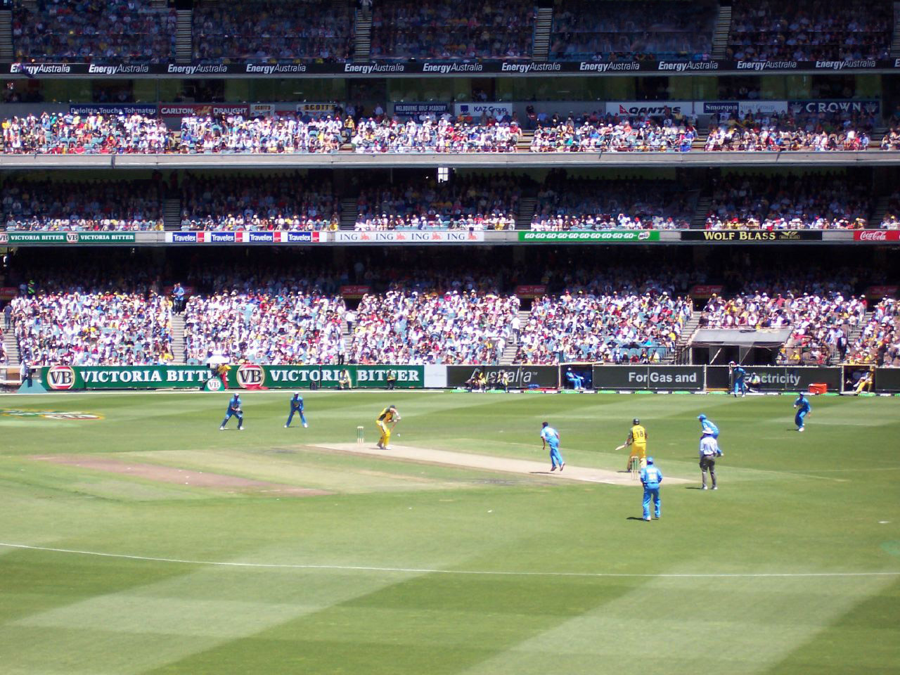 Australia v India 1st ODI at the MCG, Jan 2004